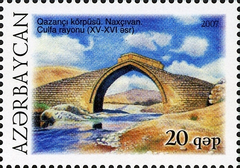 807 - 50 gapik. On the stamp is pictured “Qazanchi Bridge” Julfa Rayon.